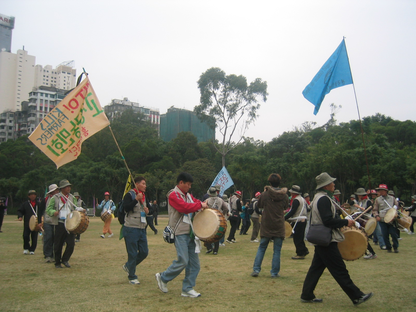 WTO Protest at Victoria Park, Causeway Bay, Hong Kong